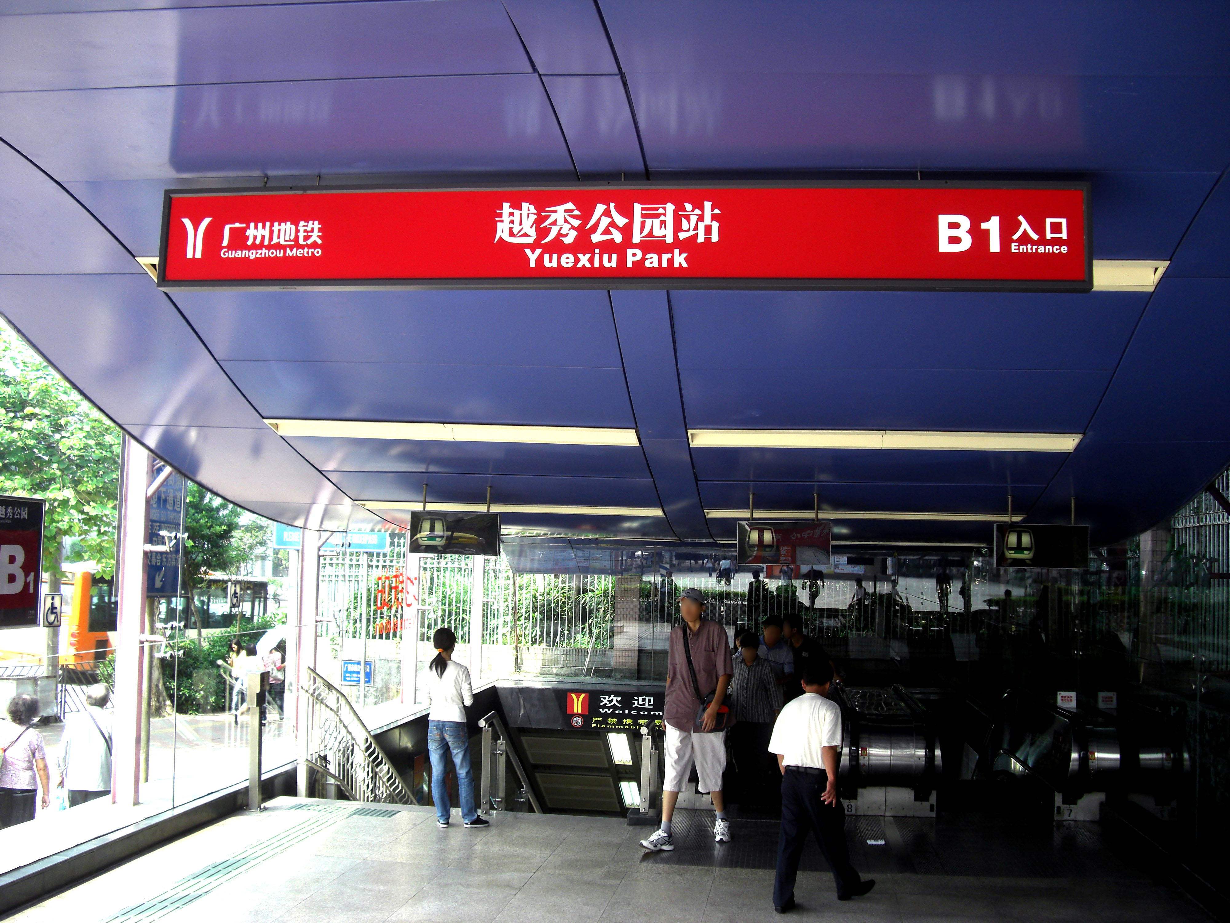 Yuexiu Park Station,Guangzhou Metro,Guangzhou,China